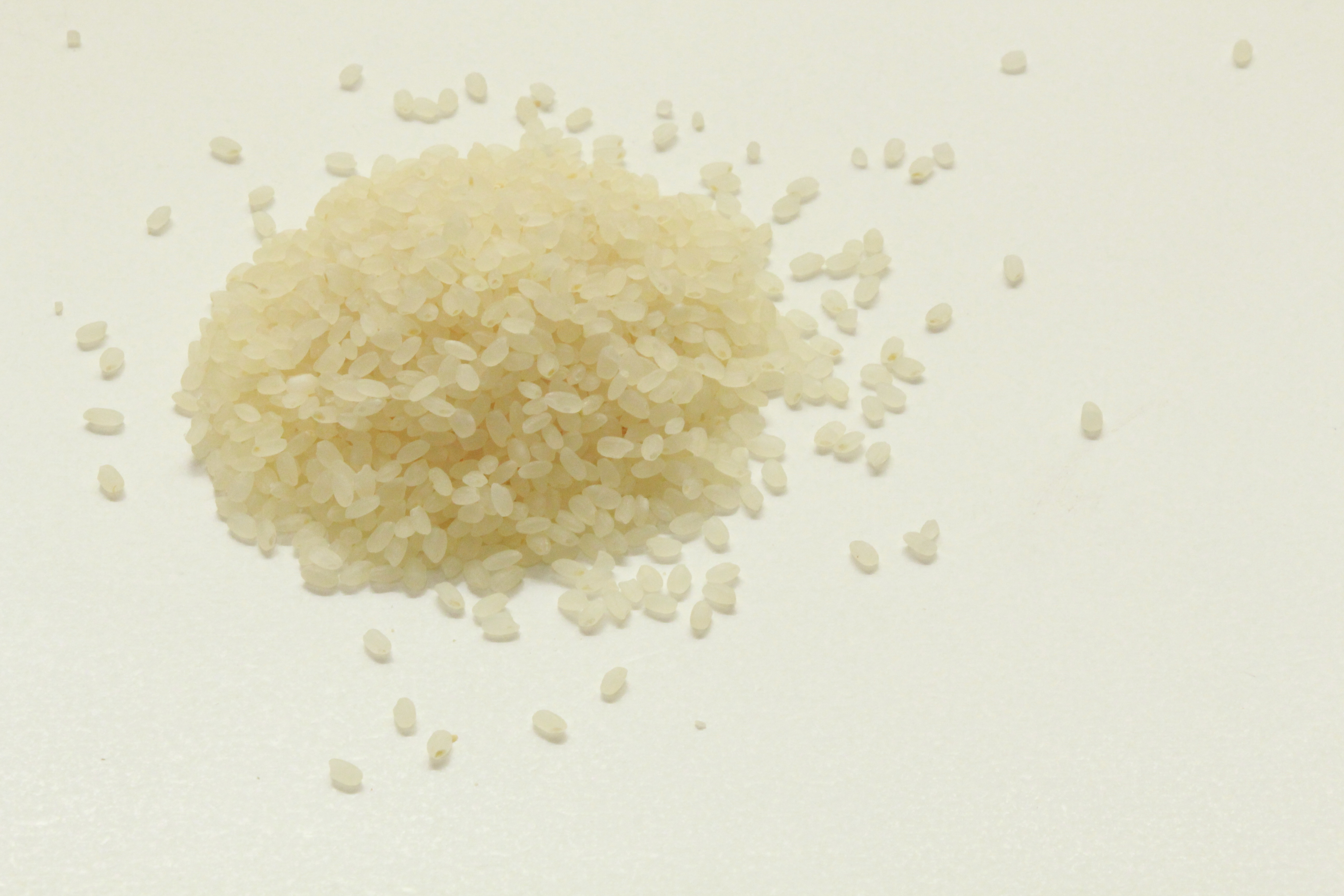 short-grain rice (japonica)